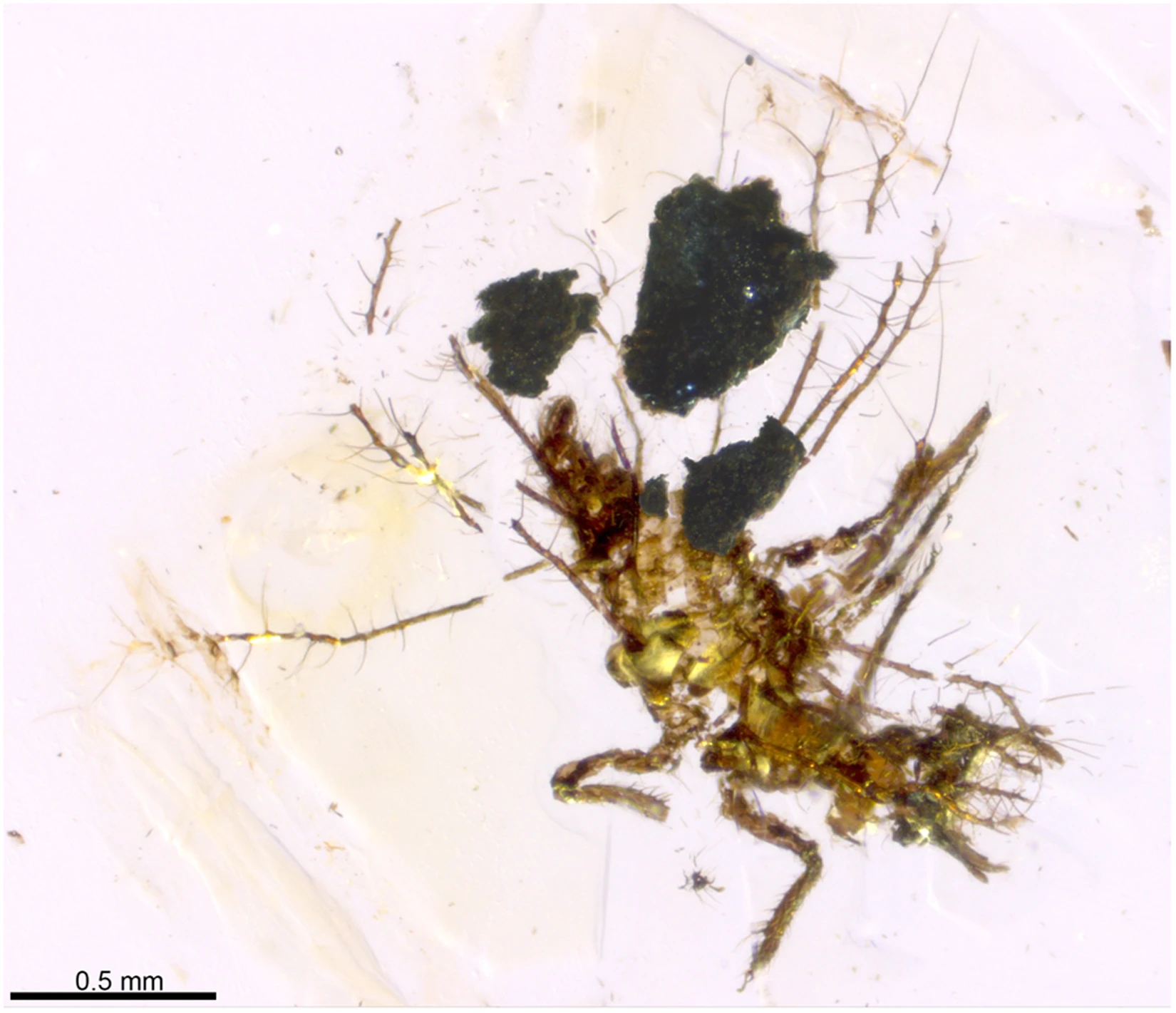 Dorsal habitus of Tyruschrysa melqart gen. et sp. nov., holotype TAR-96. The image is a composition of two images, one mostly using backlight to lit the larval structures and the second lighting the surface of the debris packet particles.